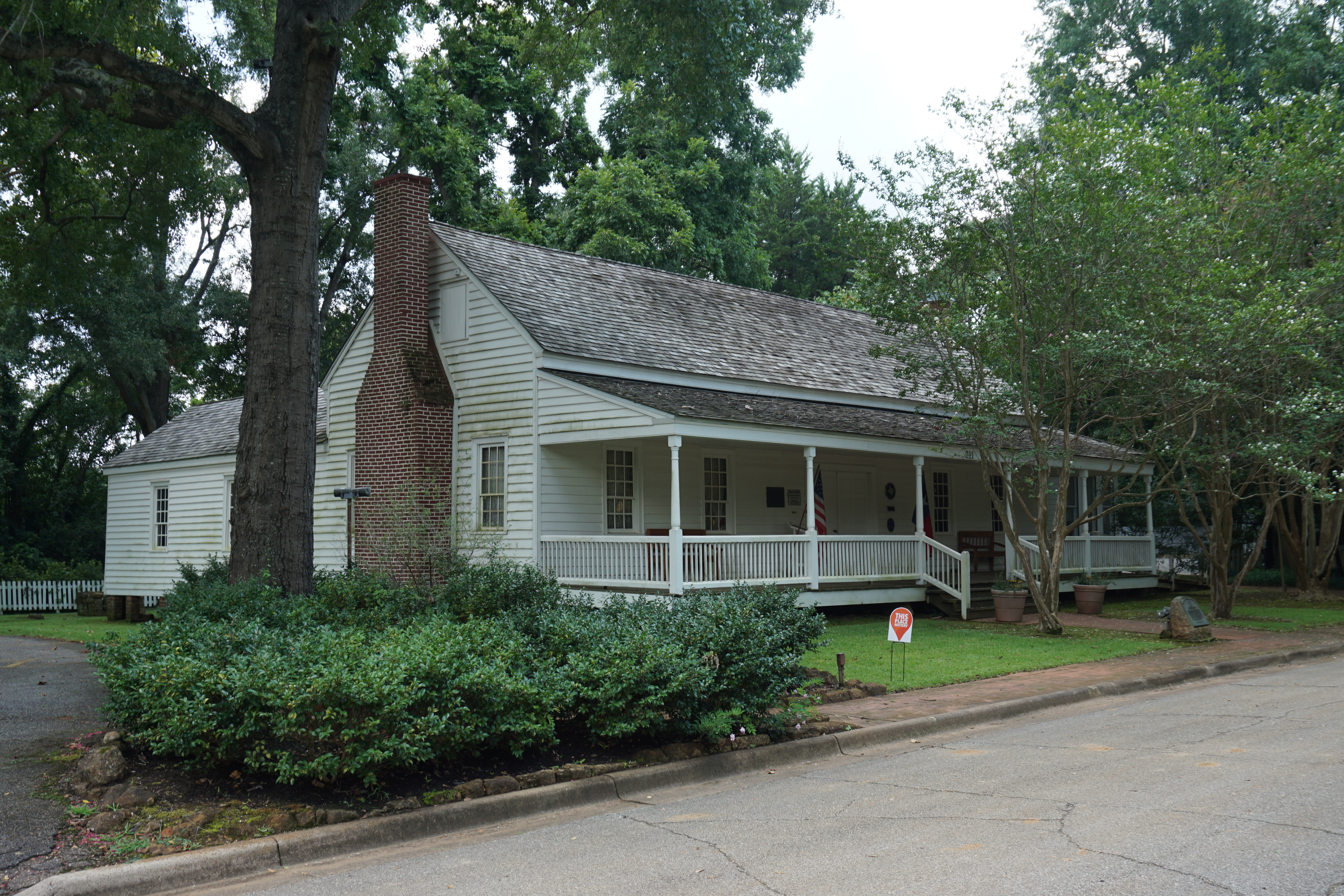 The Sterne-Hoya House Museum and Library in Nacogdoches, Texas (United States).